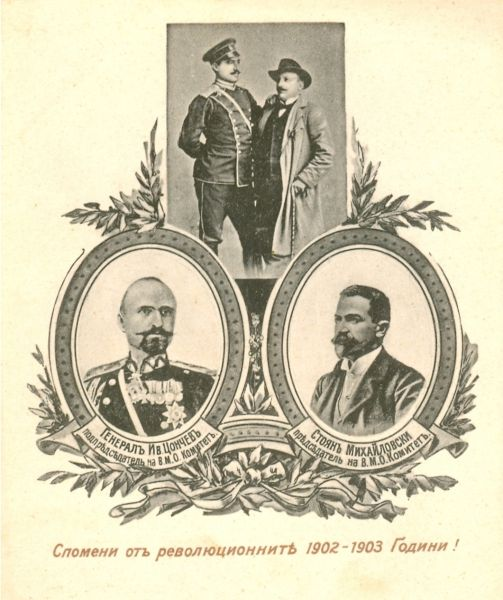 Tsonchev Mihaylovski Postcard